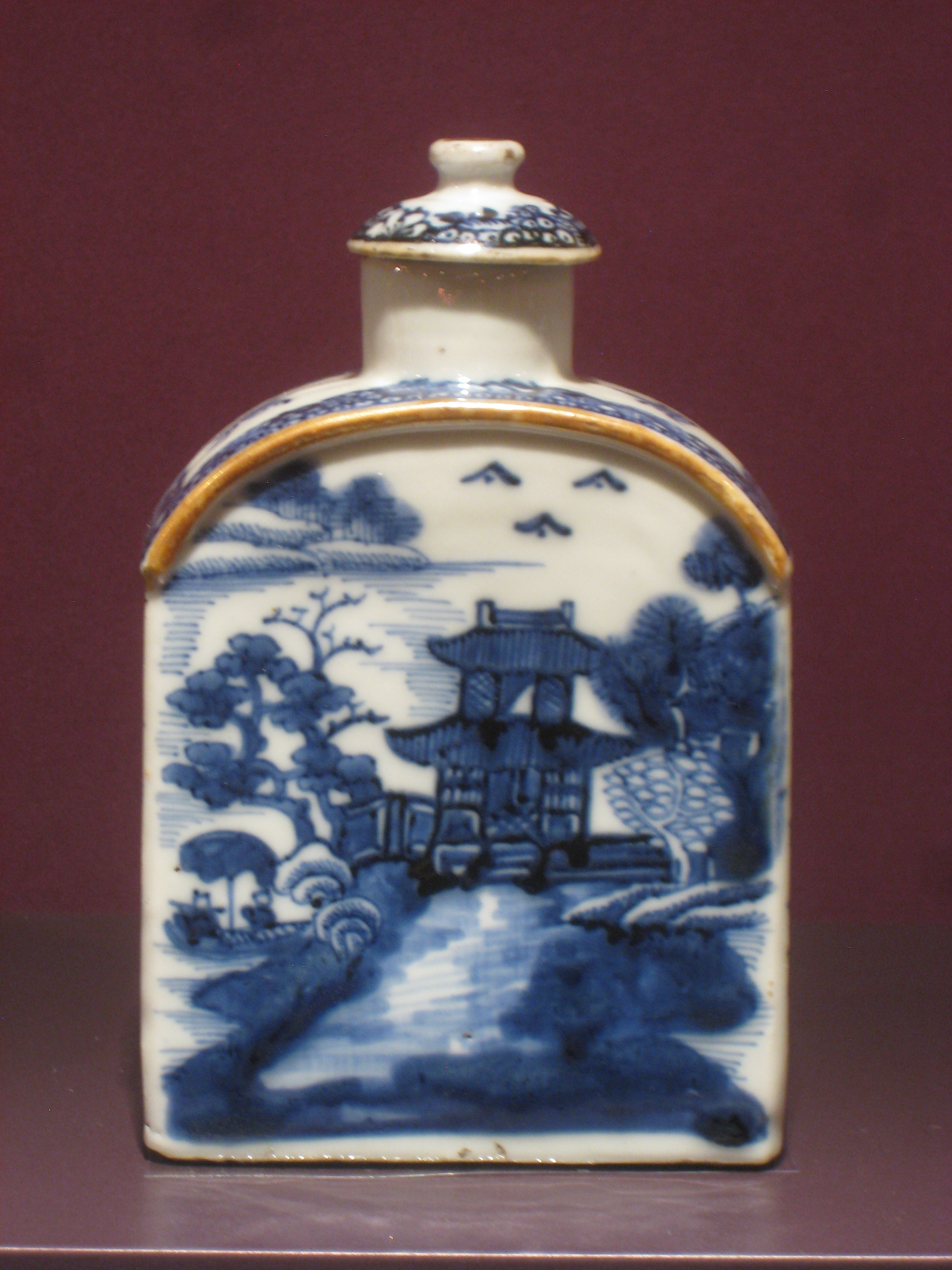 Tea canister, porcelain with underglaze blue; Chinese, 1790-1810. Pottery exhibited in the DAR Museum, National Society Daughters of the American Revolution, 1776 D Street NW, Washington, DC, USA.